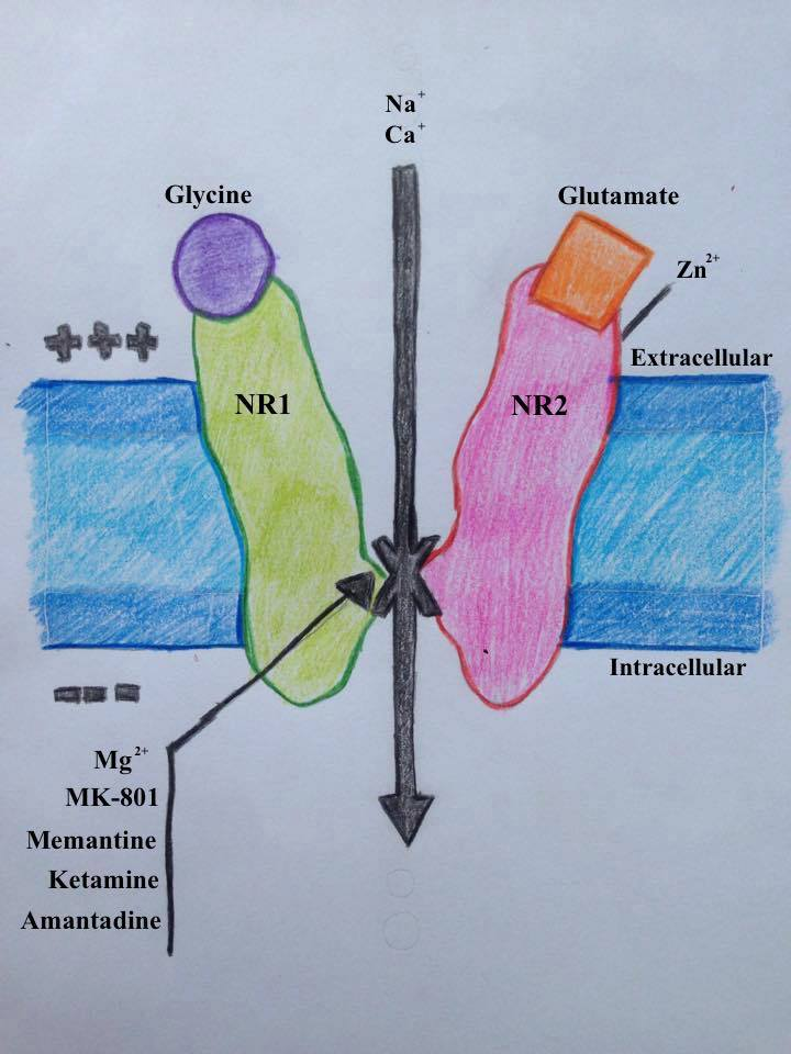 NR1-NR2B subunits